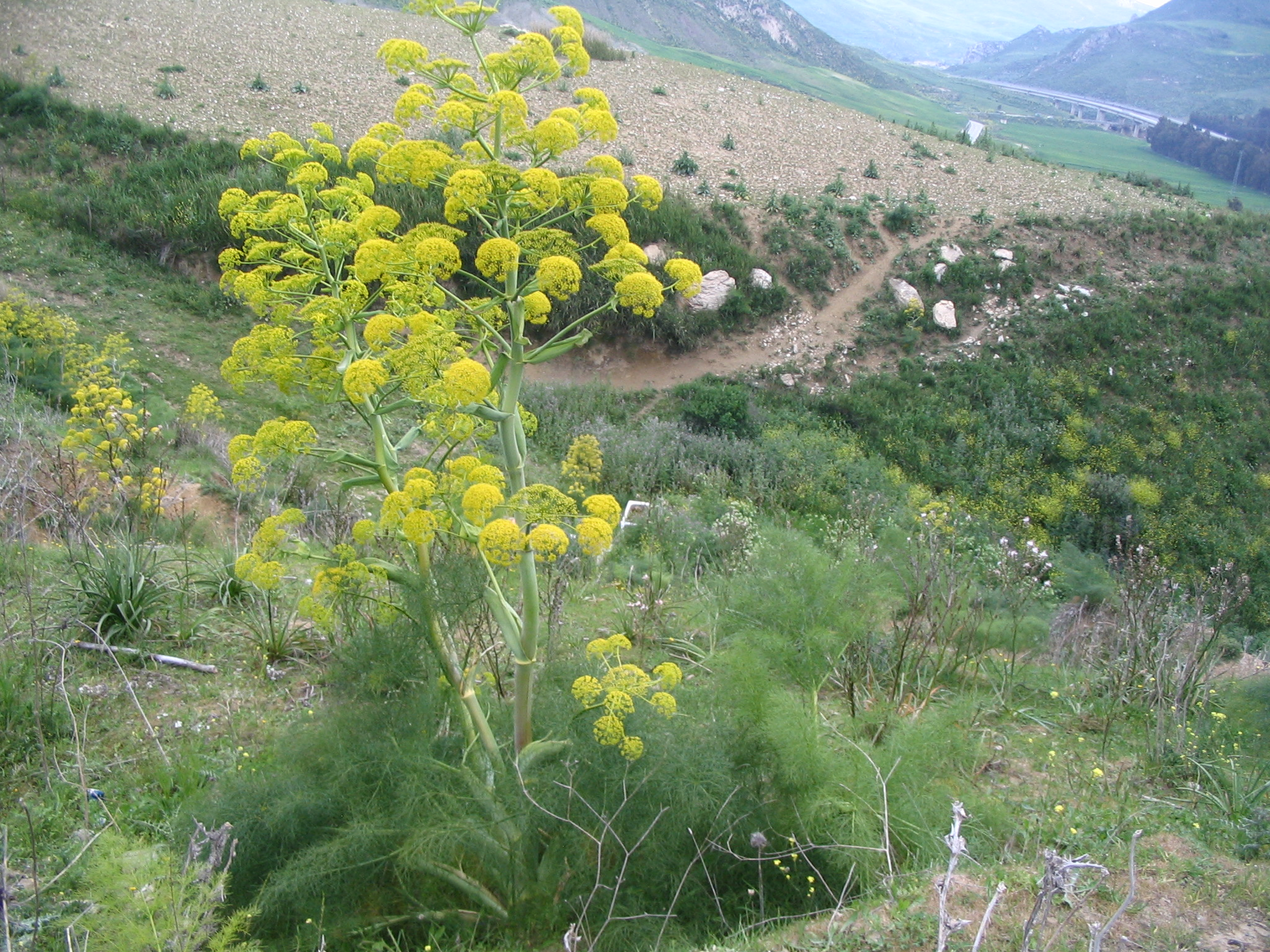 Giant fennel (Ferula communis)